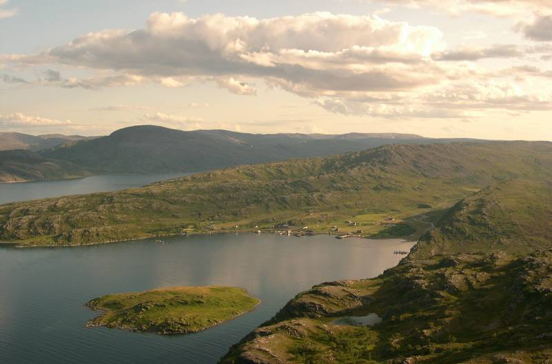 A view from the mountain side on Nervei, Finnmark, Norway.